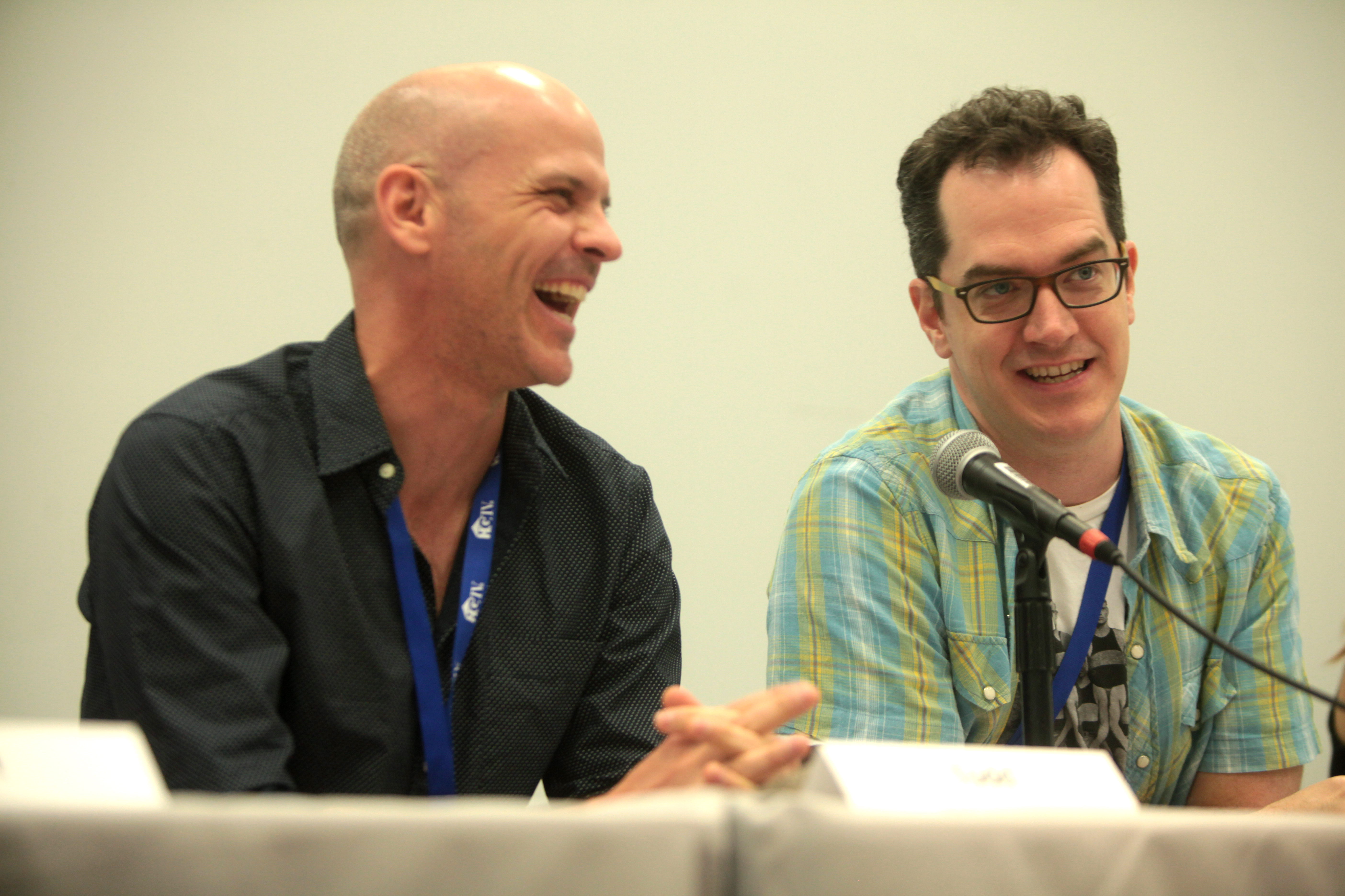 Todd Womack (left) and Mark Douglas (right) of Barely Productions, speaking on a panel at the 2014 VidCon exhibition in the Anaheim Convention Centre, California